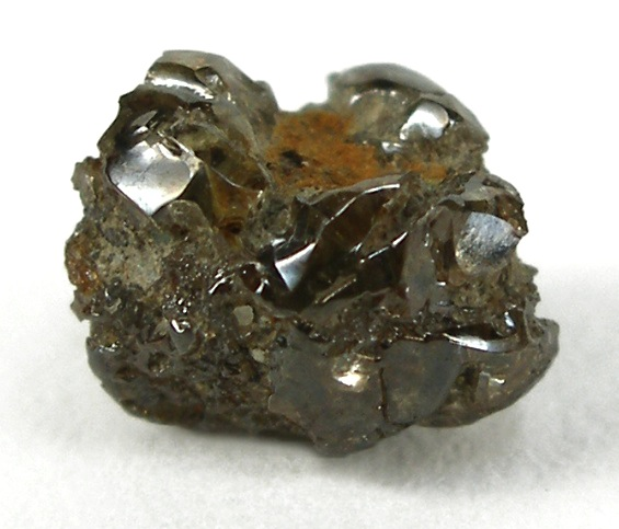 Diamond Locality: Crater of Diamonds State Park (Arkansas Diamond Corp. Mine; Mauney Mine; Ozark Mine; Prairie Creek Lamproite), Murfreesboro, Pike County, Arkansas, USA (Locality at ) Size: 0.5 x 0.5 x 0.5 cm. A lustrous, gemmy, 0.96 carat, transparent to included, rounded, nubby, brown diamond from Crater of Diamonds State Park, Arkansas. The crystal was found by Robert and Anna Ford in July, 2009 and is accompanied by a Park card.